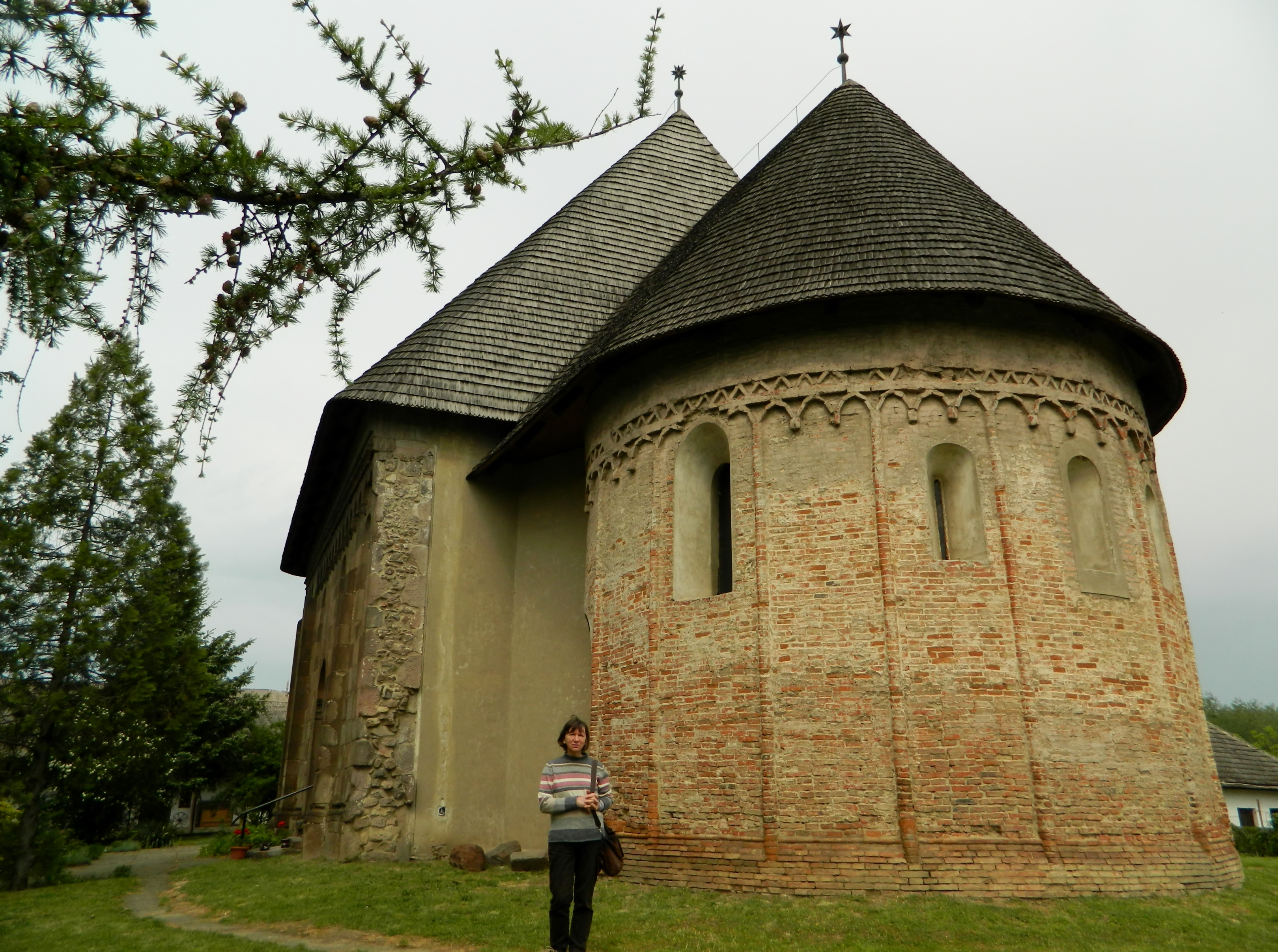 Reformed church in Karcsa